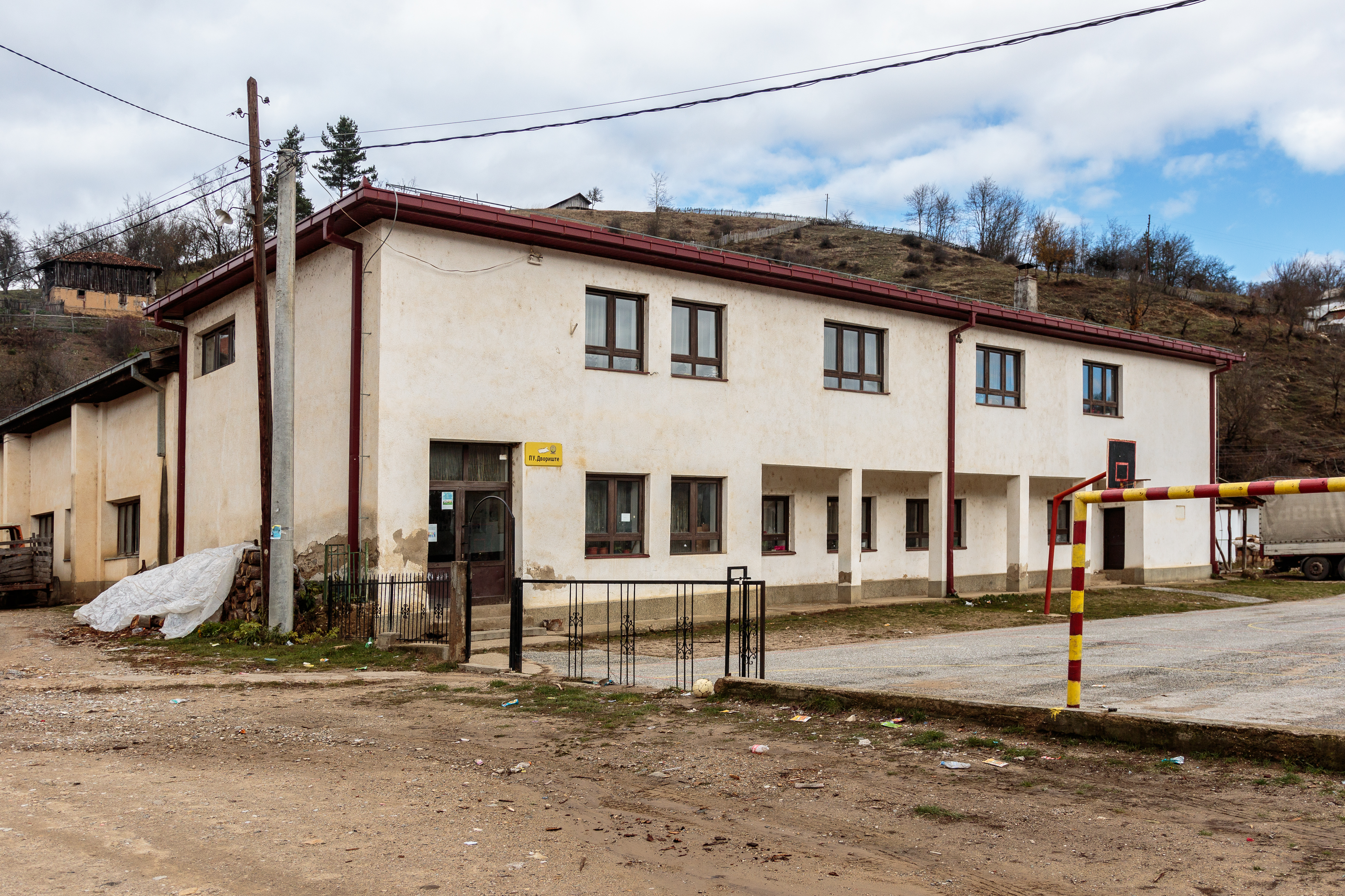 Primary school in the village of Dvorište, Maleševija, Macedonia